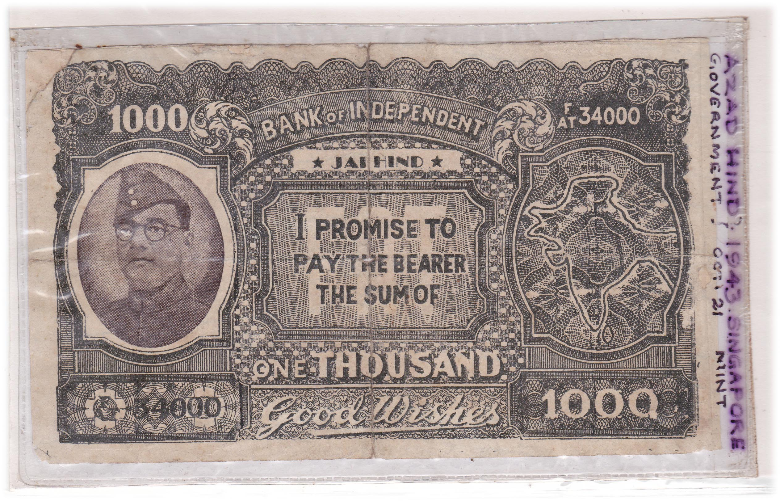 Azad Hind interim government was set up by Netaji Subhash Chandra Bose in 1943 in Singapore. This is an image of the Rs 1000 currency by Azad Hind govt.